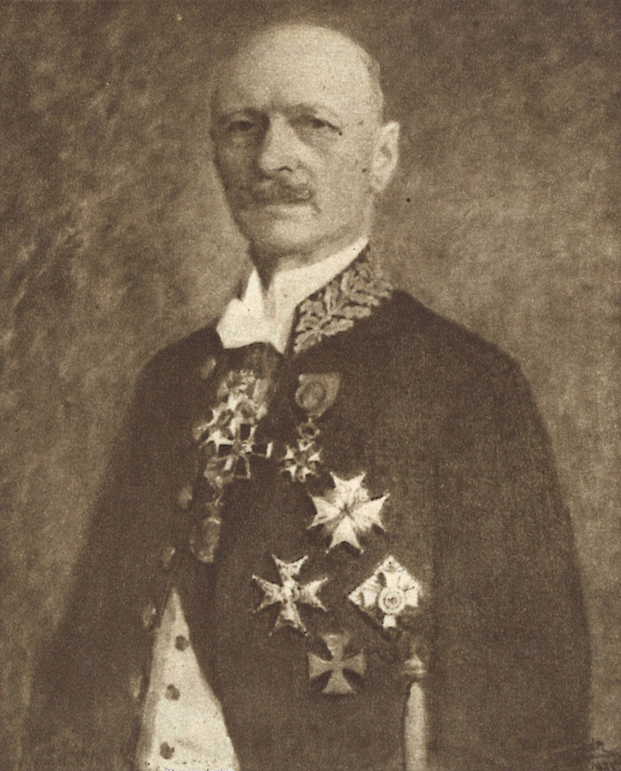 Alexis Hammarström (1858-1936), Swedish civil servant and member of parliament. Painting by Axel Jungstedt made in connection with Hammarström leaving his office as county governor of Kronoberg County in 1925.